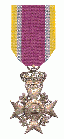 Silver Cross of the Order of the Crown Mecklenburg-Schwerin